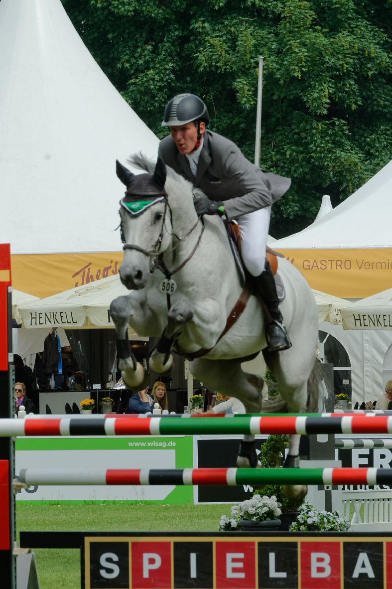 CSIYH* int. Springprüfung nach Strafpunkten und Zeit Internationales Pfingstturnier Wiesbaden 2015 The making of this document was supported by the Community-Budget of Wikimedia Germany.